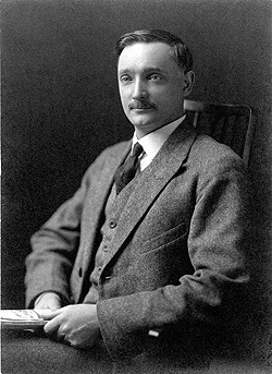 Portrait of Ernest Wood